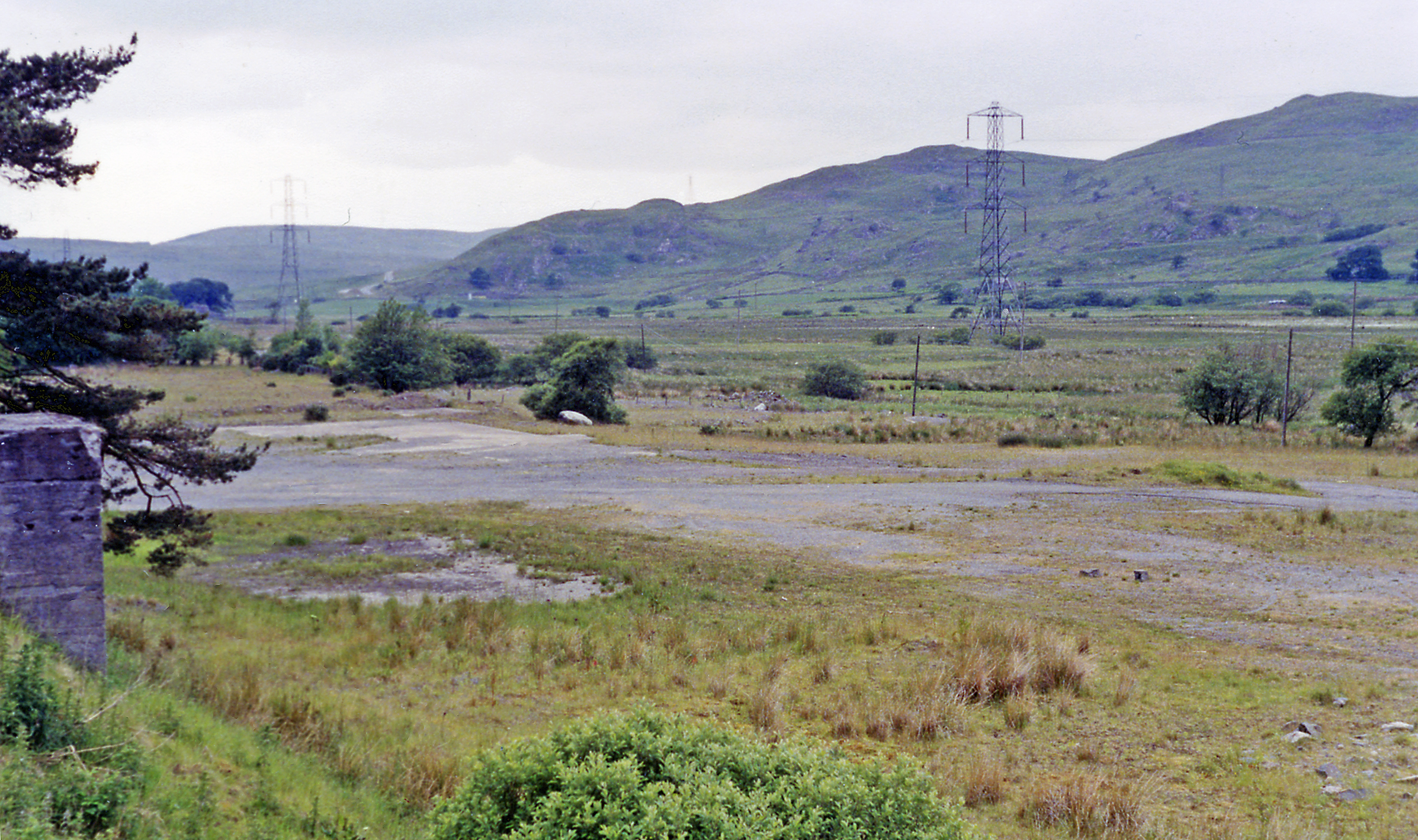 Site of Arenig station. View westward, towards Blaenau Ffestiniog near summit of the ex-GWR Bala - Blaenau Ffestiniog line, closed to passengers from 4/1/60, for goods from 28/1/61. On the right is Arenig Fach (2,364 ft.), beyond to the left the Migneint range (Graig Goch, 1,929 ft.).